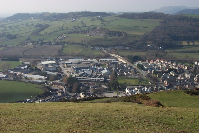 Mochdre Business Park. The business park at Mochdre taken from the 153 metre hill top to the East at grid reference SH 83076 78292.